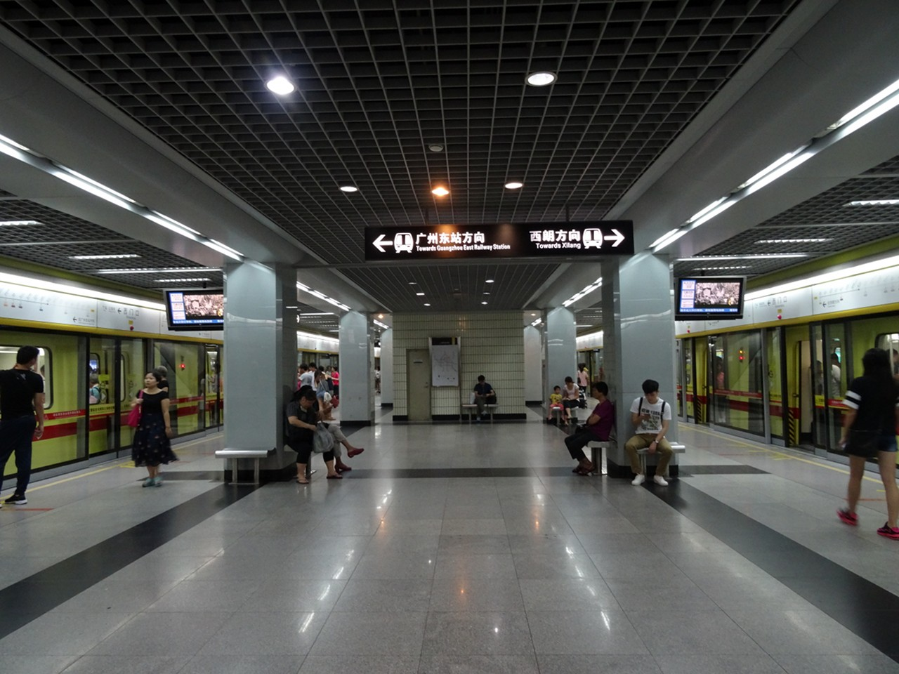 西門口站嘅月台